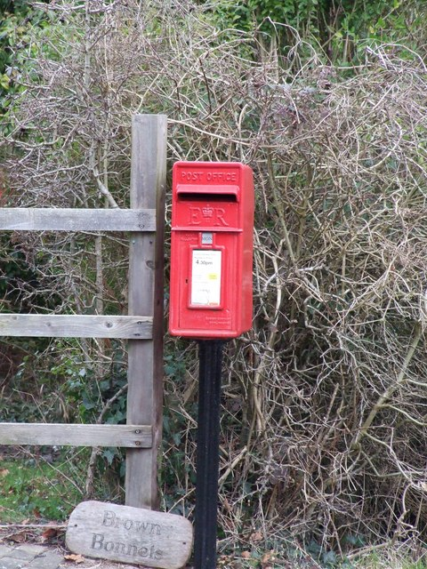 Lover Post Box This post box is outside the former post office, which was a converted household garage. It was well known around the world for stamping valentine cards with a special postmark: "St Valentines Day Lover Salisbury", until 2008 when the post office was shut down.